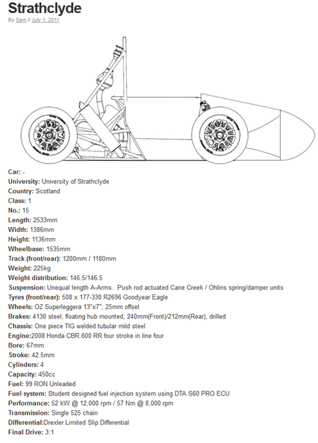 Picture of the desgin of the car in which was created by